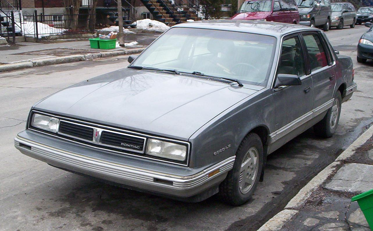 1985-1988 Pontiac 6000 photographed in Montreal, Quebec, Canada.